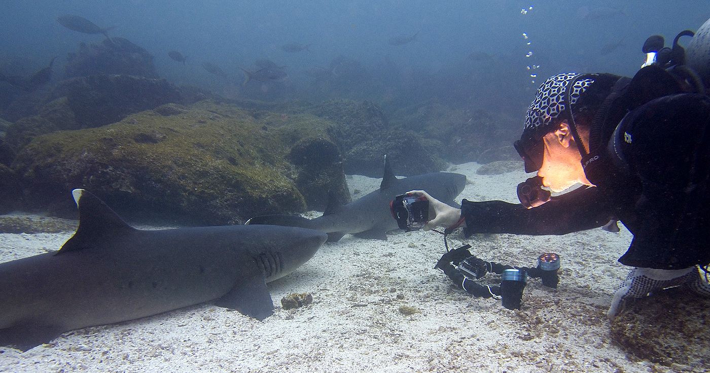 Diver taking shark pictures